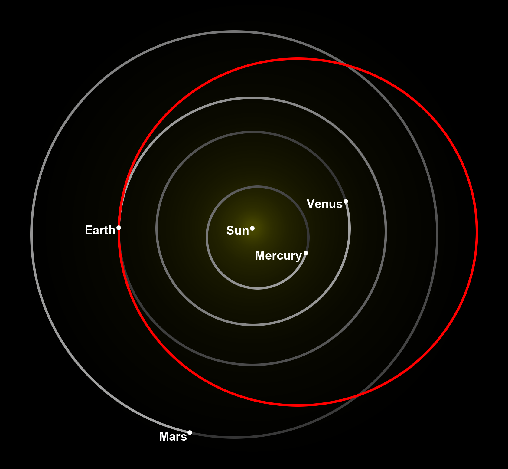 Orbital diagram of Elon Musk's Tesla Roadster and the terrestrial planets.